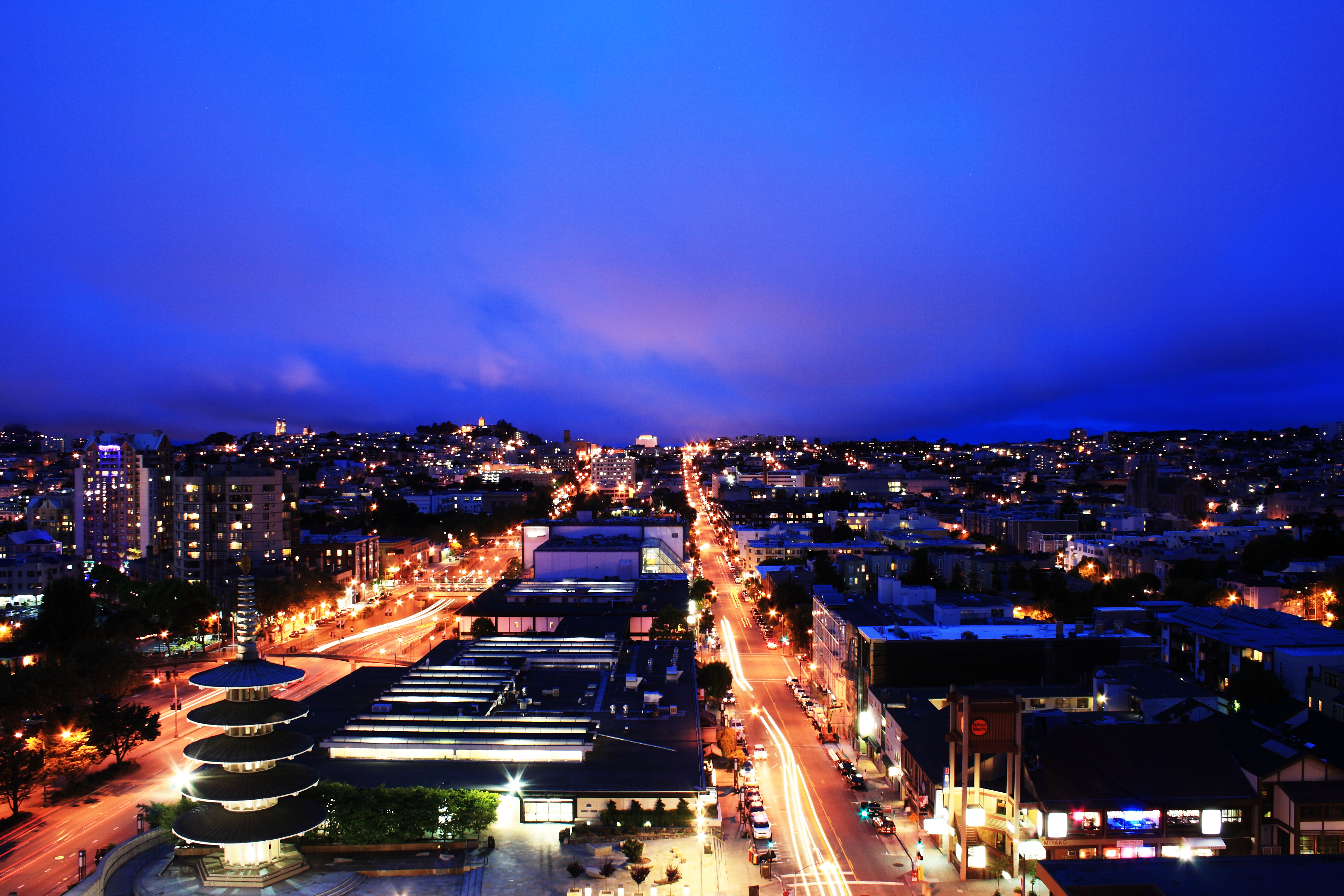 Japantown at night. Taken from our hotel balcony.